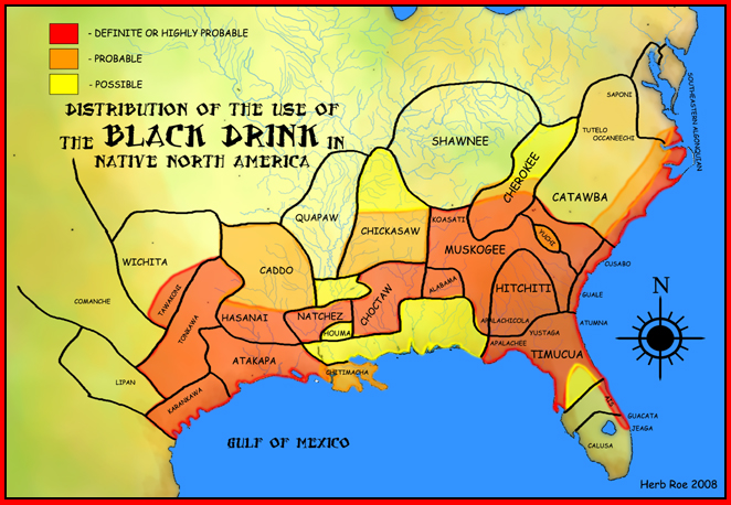 A map showing the extent of the use of the Black drink by Southeastern American Indian Tribes.